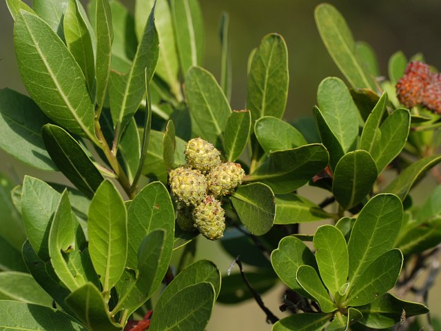 Female flower heads of Conocarpus erectus (Combretaceae) from Ajuruteua Peninsula, Bragança, Pará, North Brazil *